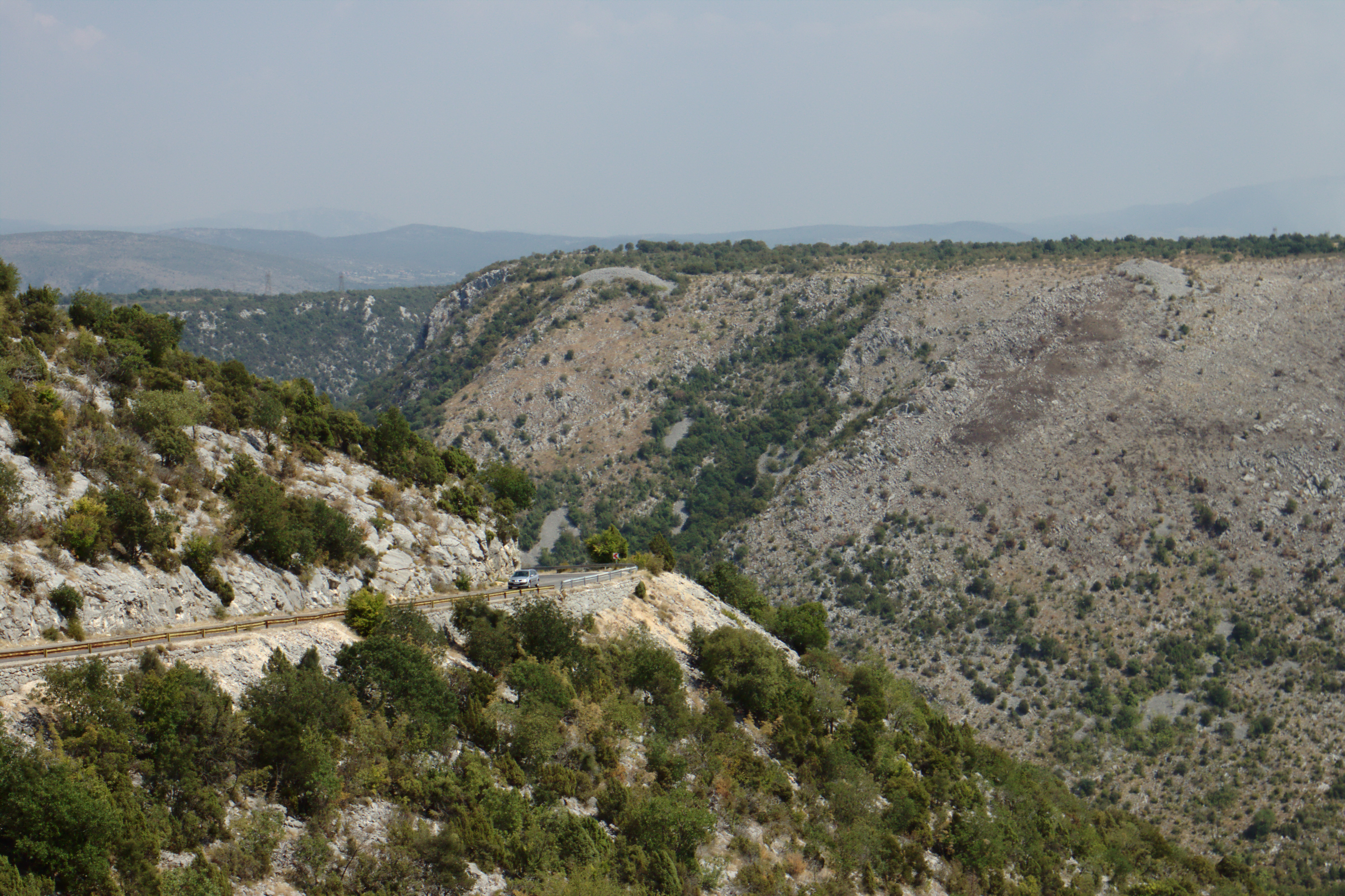 Neretva River canyon near Žitomišljići (and Čapljina), Bosnia and Herzegovina